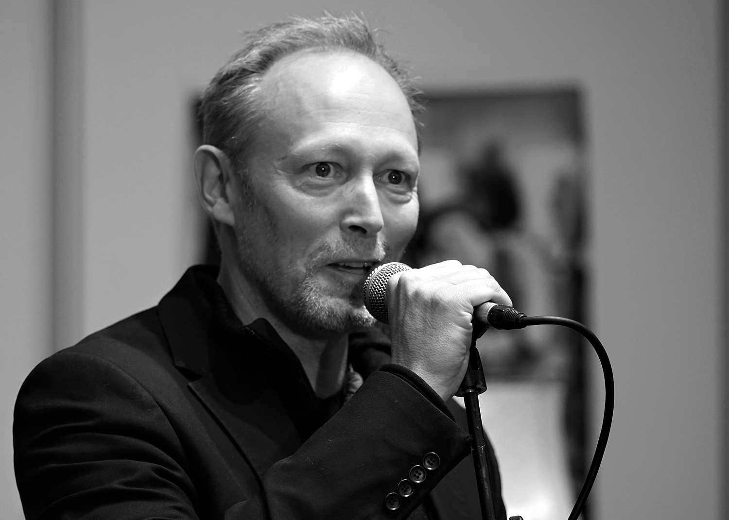 Lars Mikkelsen - Danish actor at the Copenhagen Book Fair "BogForum 2015", Copenhagen, Denmark